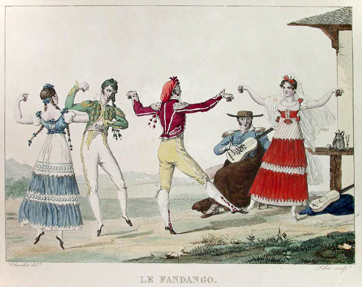 Picture of Spanish folk dance by french painter Pierre Chasselat